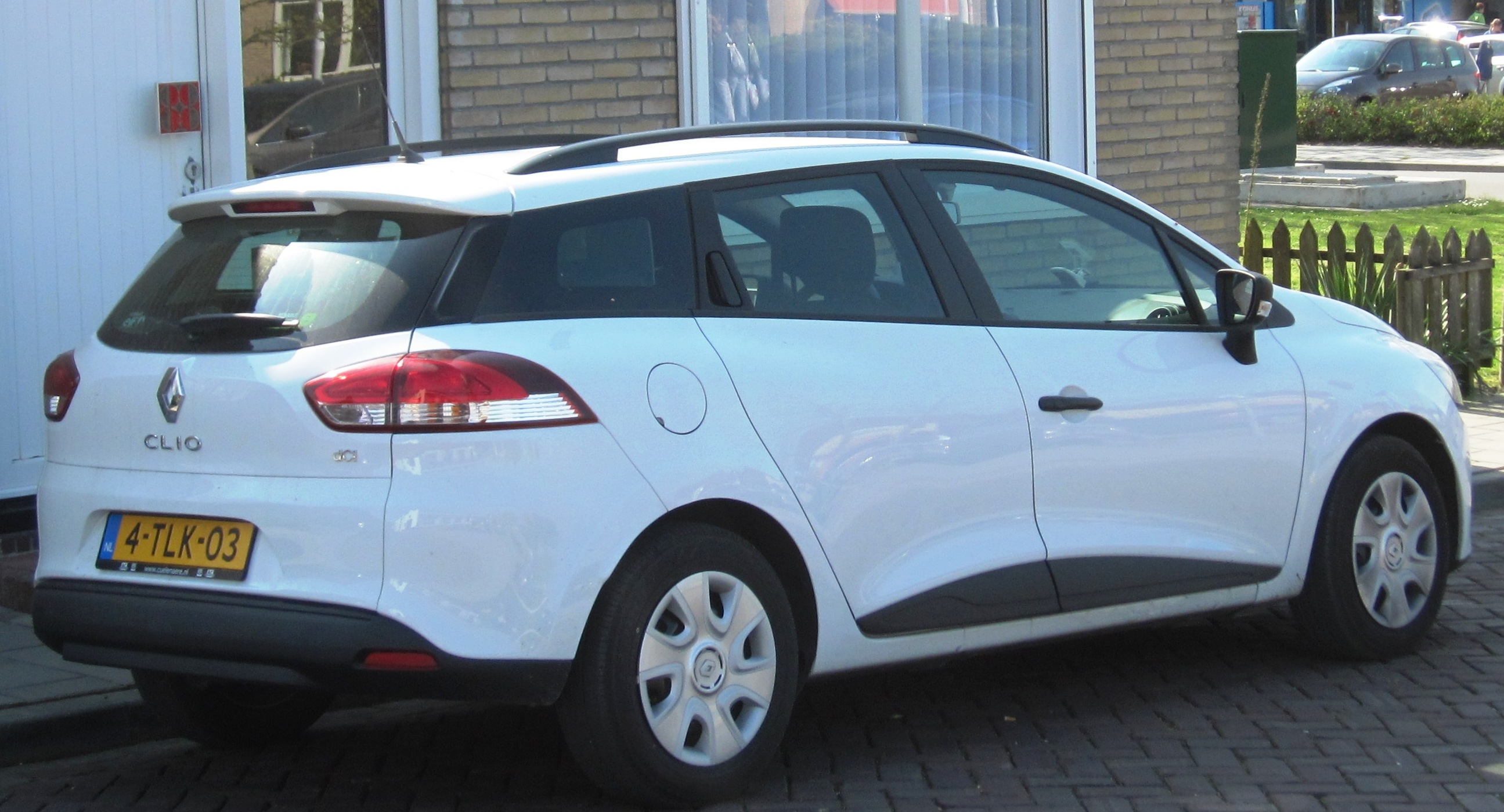 Renault Clio IV Estate Per Dutch tax office website: First registered March 2014 Engine 1461cc / 4 cylinders / Diesel Max Power 66 kW